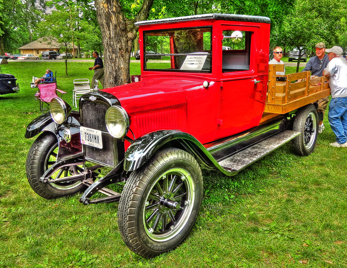 1924 Chevrolet Truck. I saw this today at Yoctangee Park in Chilicothe, Ohio. It was my favorite in the 48th Annual Antique Classic & Hot Rod Show. The truck is the same age as I am, but in much better condition.